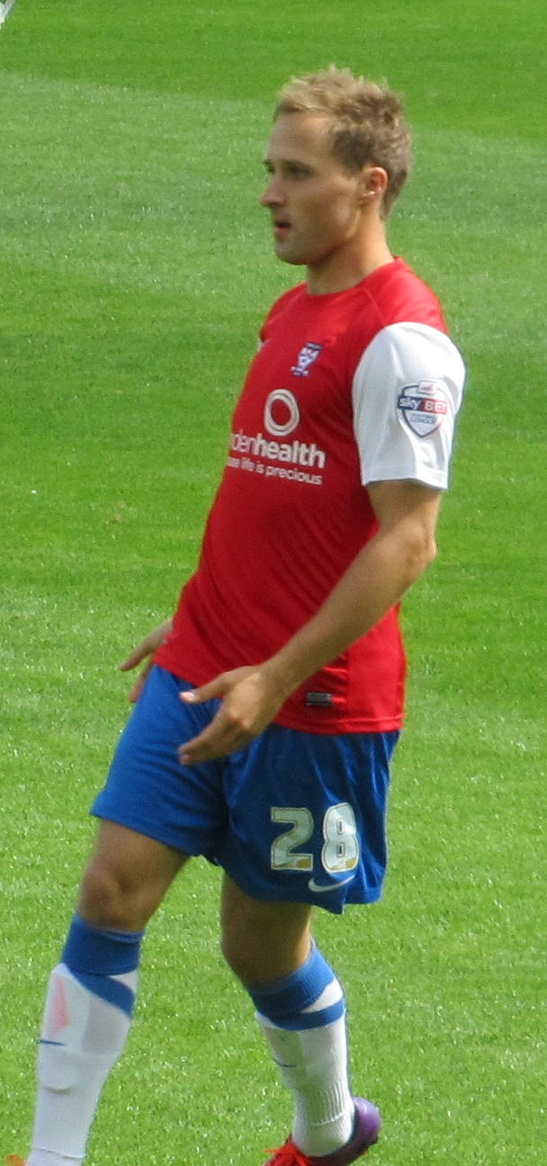 Sander Puri playing for York City against Northampton Town at Bootham Crescent, York on 3 August 2013